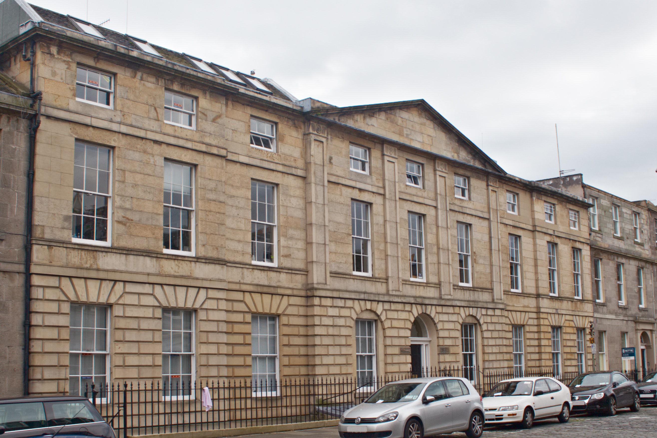 Forth House, Forth Street Edinburgh.